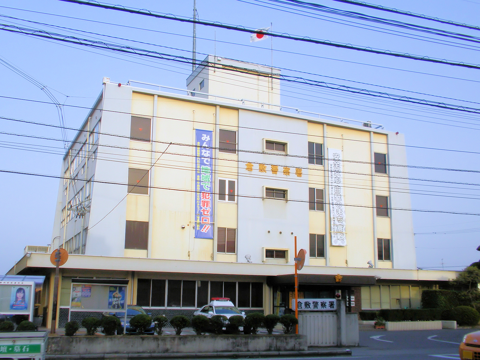 Former Kurashiki police station, Kurashiki, Okayama (not extant)